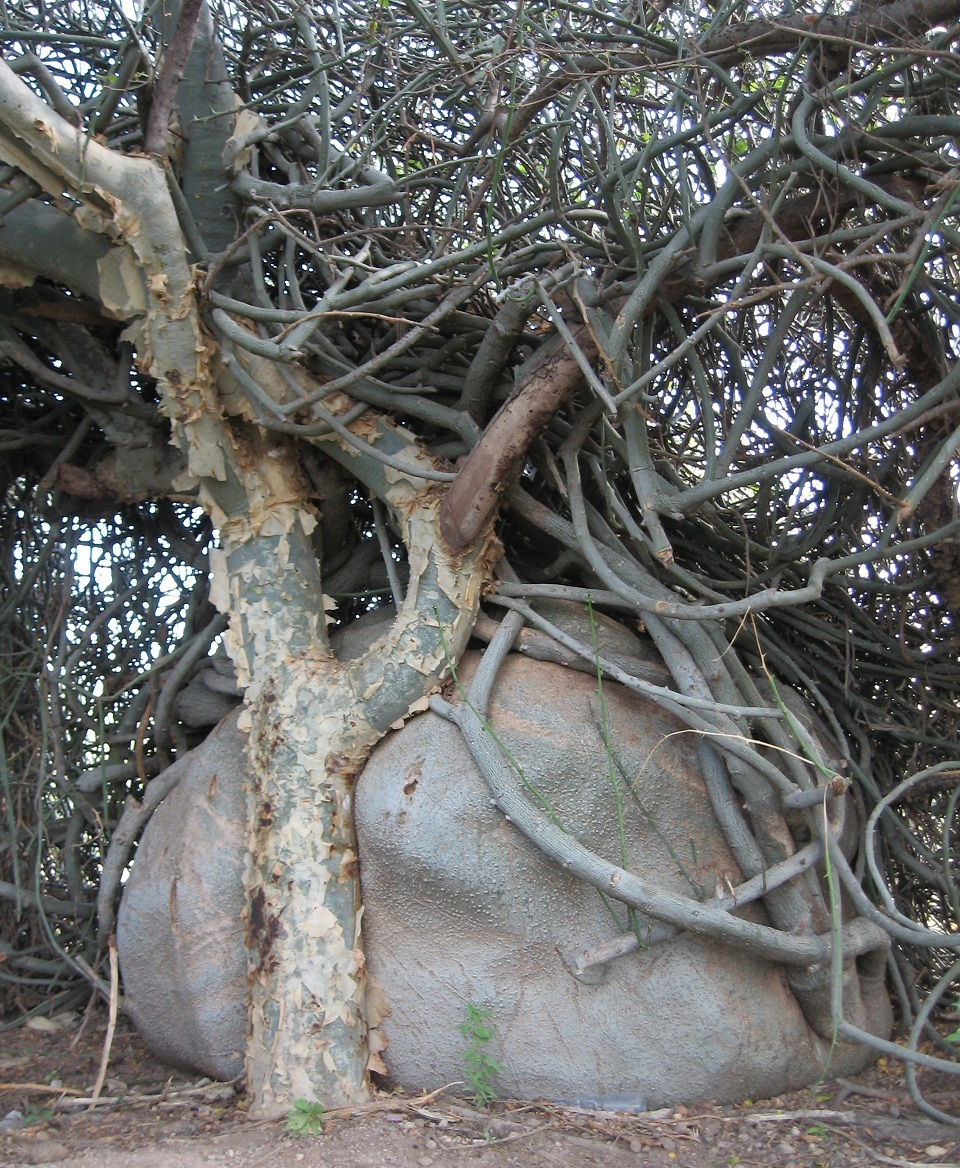 Large Adenia globosa behind a tree (Commiphora sp.?). , Lake Eyasi, Tanzania